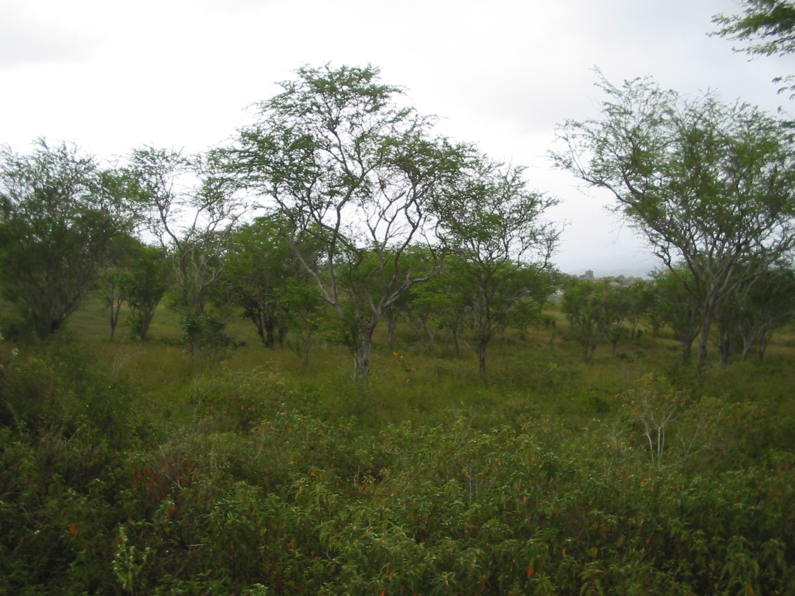 In the vicinity of the apartment, the boundaries of the rural area.